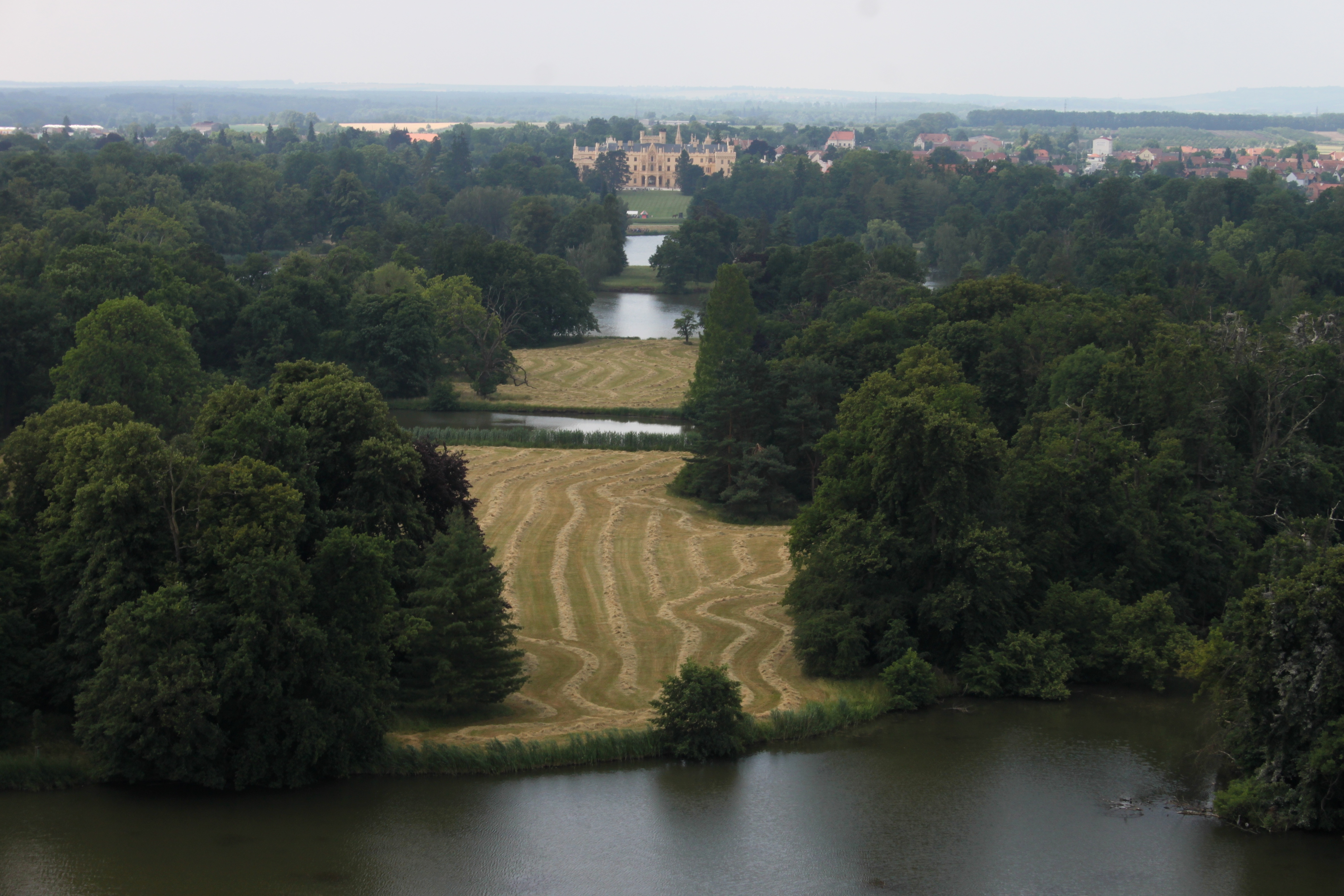 View of Lednice castle from Minaret.